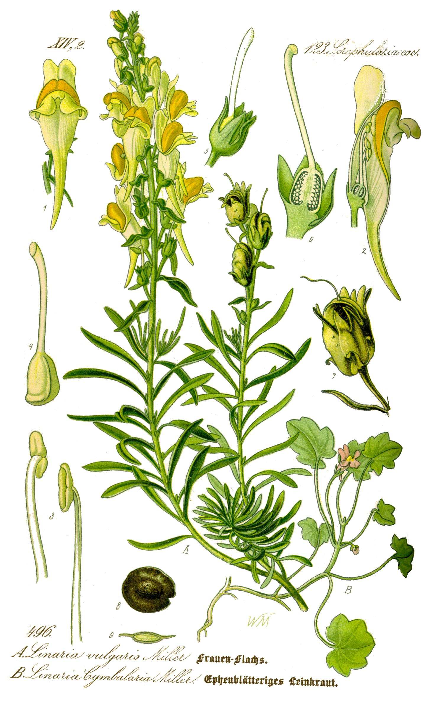 Name Linaria vulgaris Family Scrophulariaceae